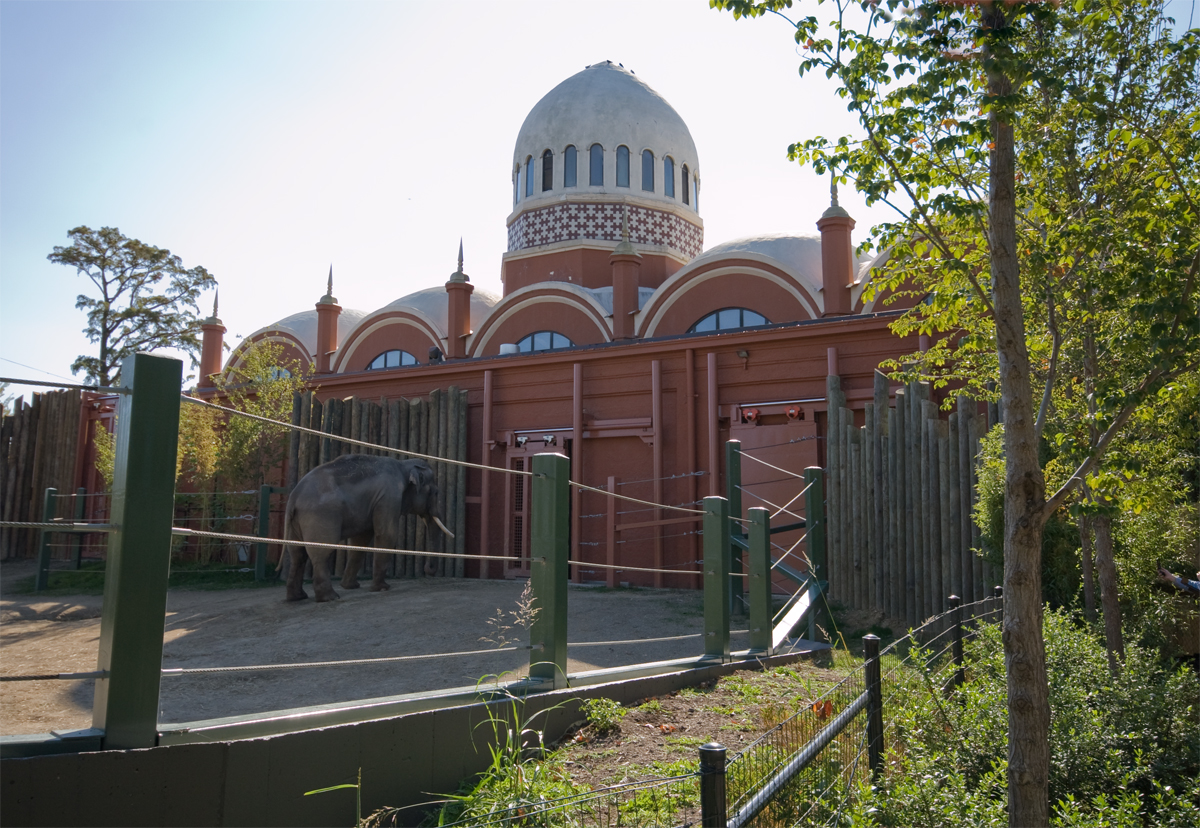 Elephant house is among the historic structures at the Cincinnati Zoo. Photo by Greg Hume